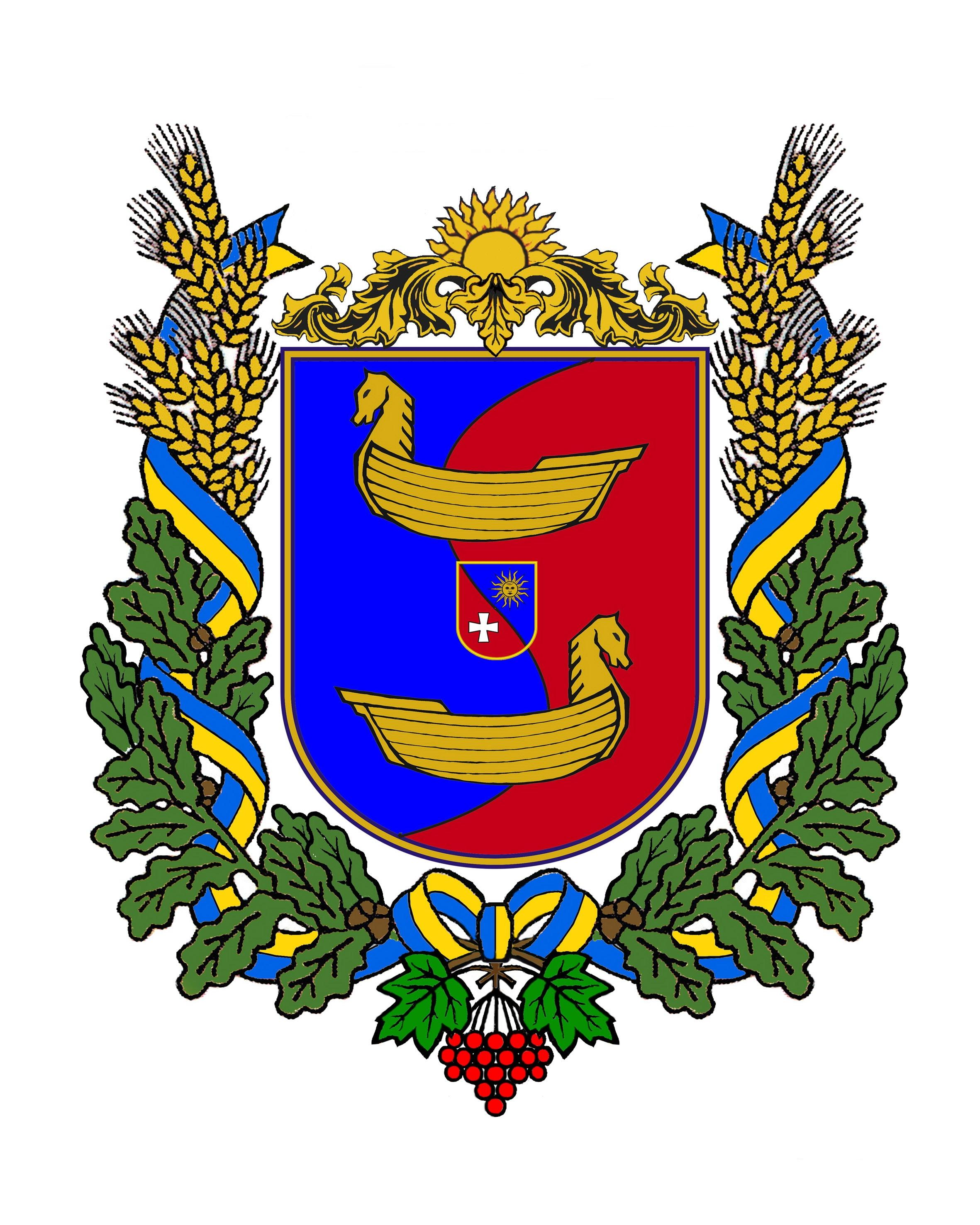 Coat of Arms of Volochyskyi rayon